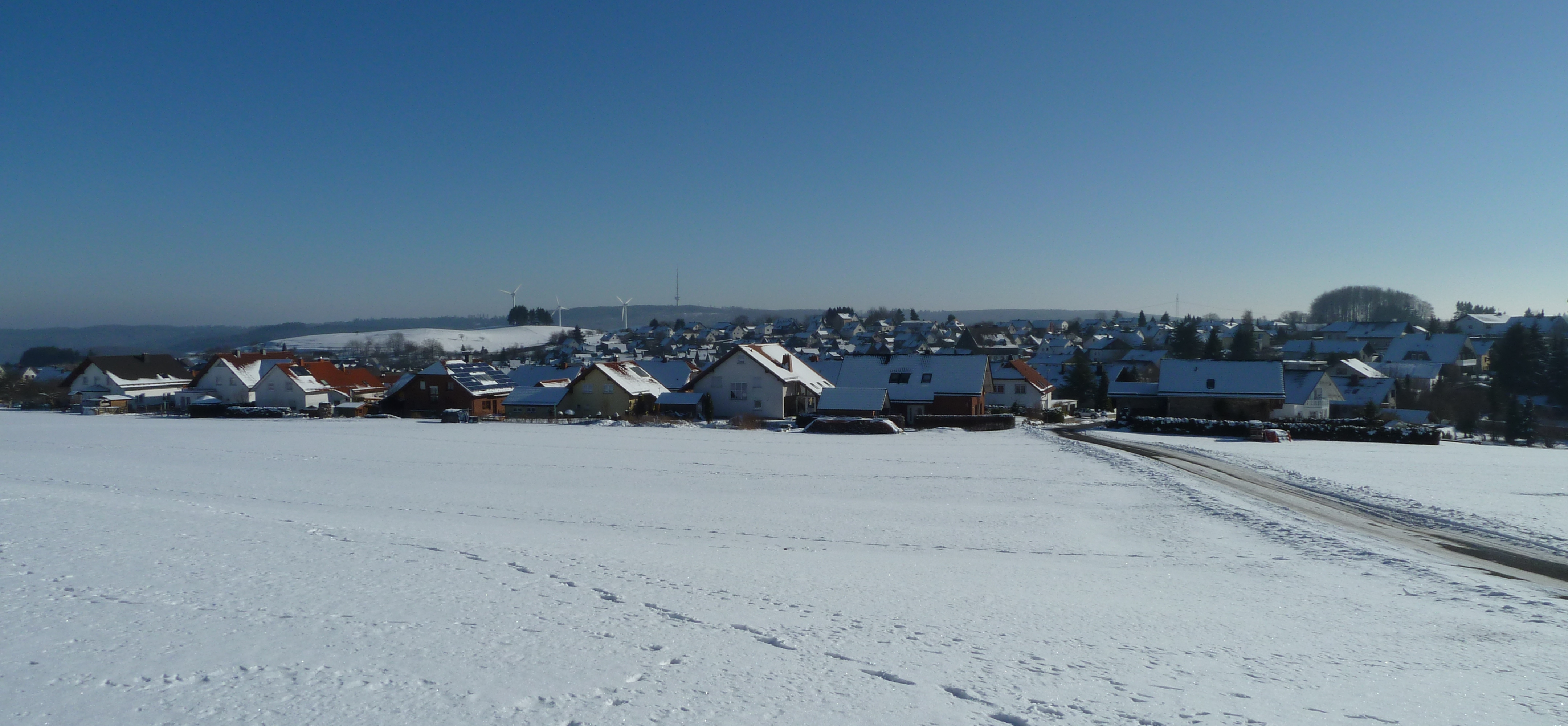 Eschenburg-Hirzenhain, Germany